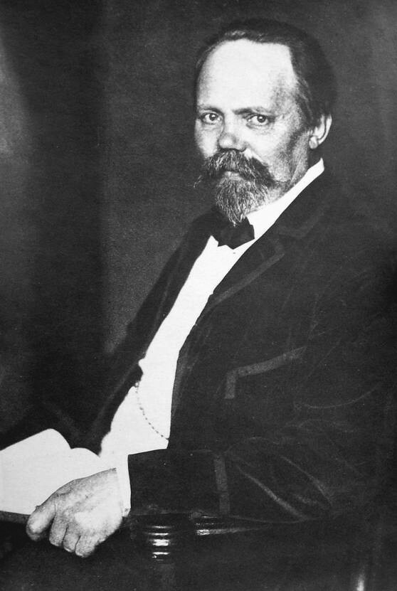 Engelbert Humperdinck - deutsche Komponist